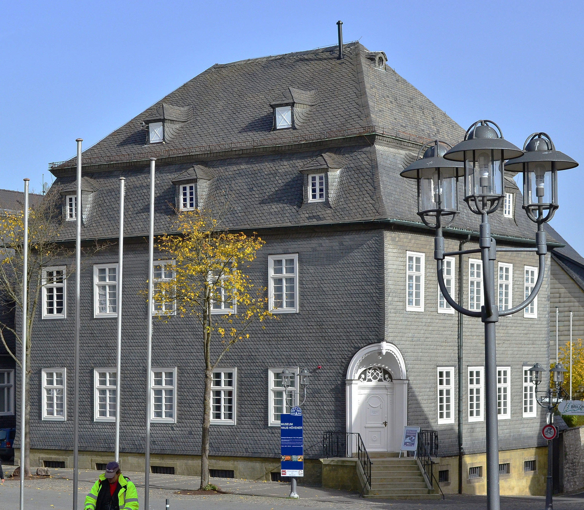 Brilon: Museum Haus Hövener This image shows a heritage building in Germany, located in the North Rhine-Westphalian city Brilon.